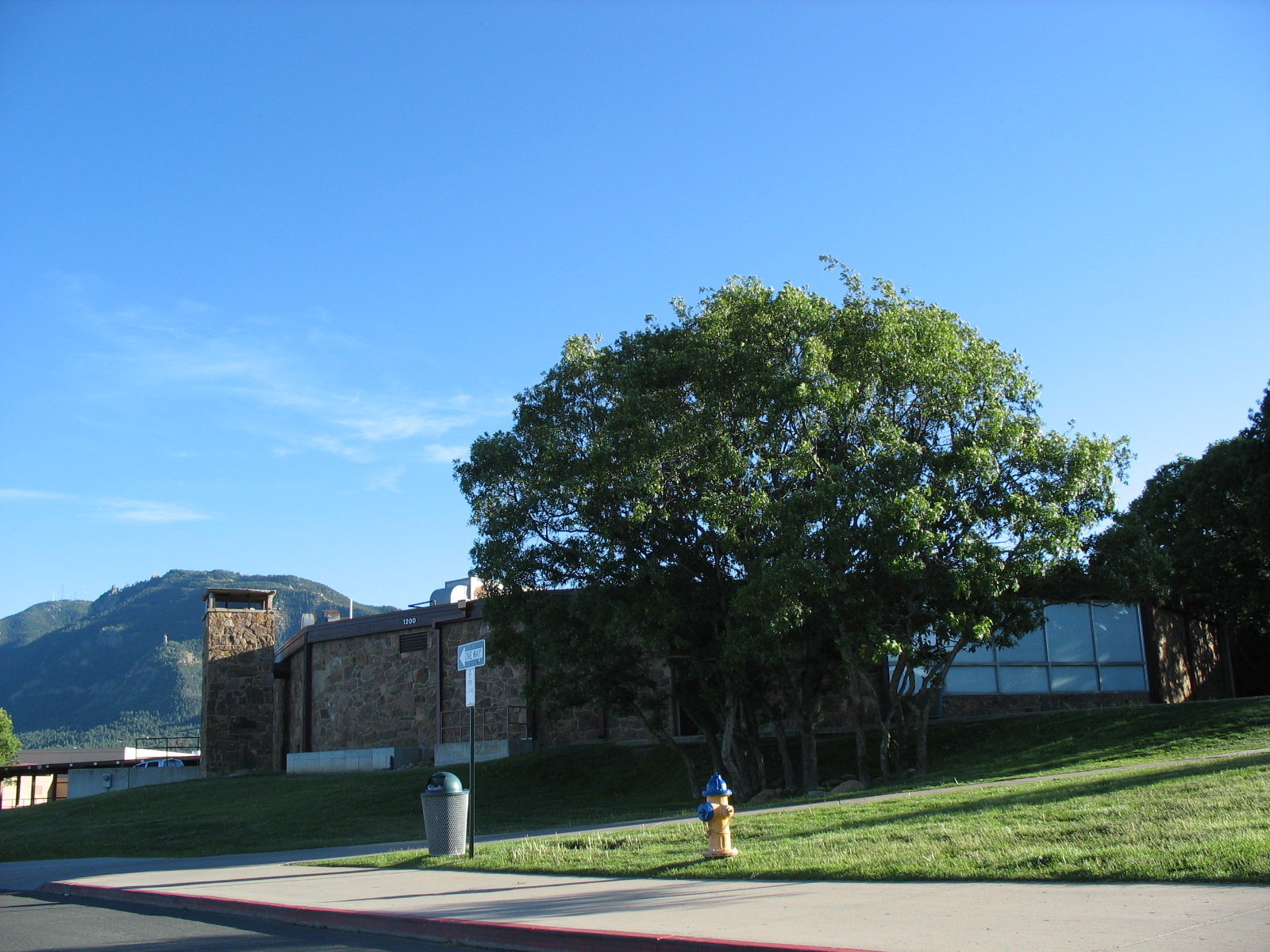 Cheyenne Mountain High School